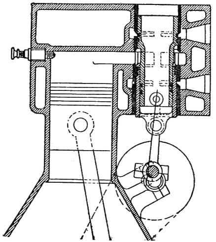 Slide cylinder valve Slide cylinder valve Scans from 'The Book of the Motor Car', Rankin Kennedy C.E., 1912 See other images from this source in Scans from 'The Book of the Motor Car'